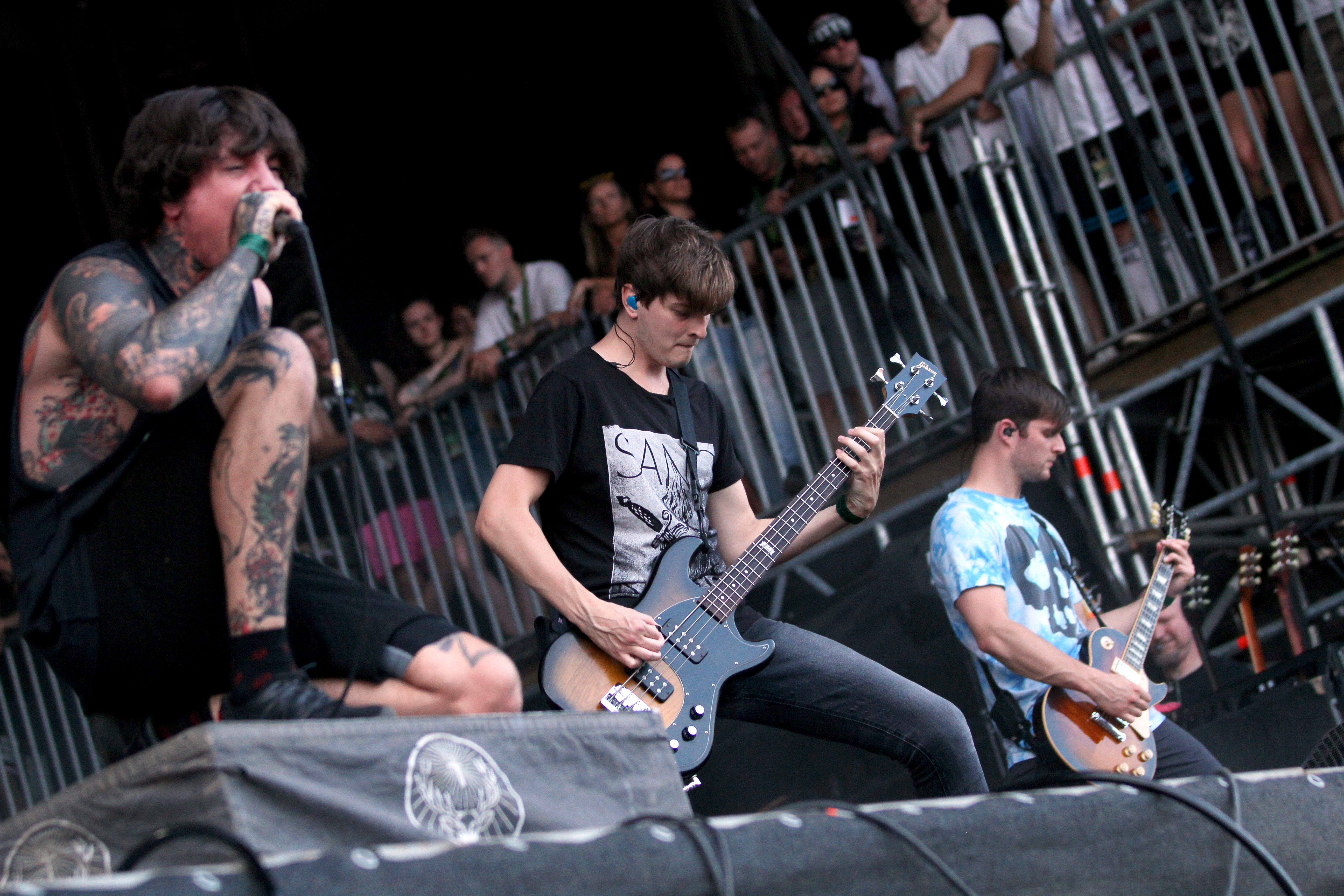 The English metalcore band Bring Me the Horizon at the With Full Force festival 2014 in Roitzschjora/Germany